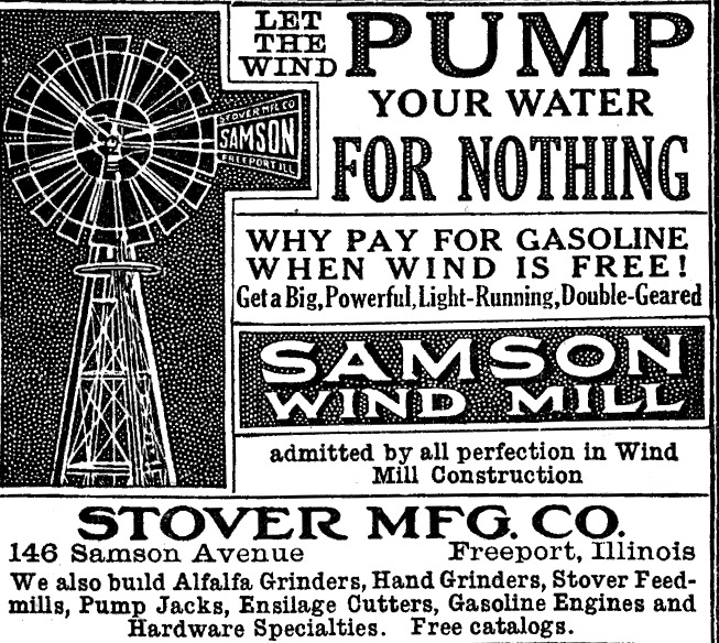 1916 advertisement for Samson Wind Mills. "Pump your water for nothing - Why pay for gasoline when wind is free!"